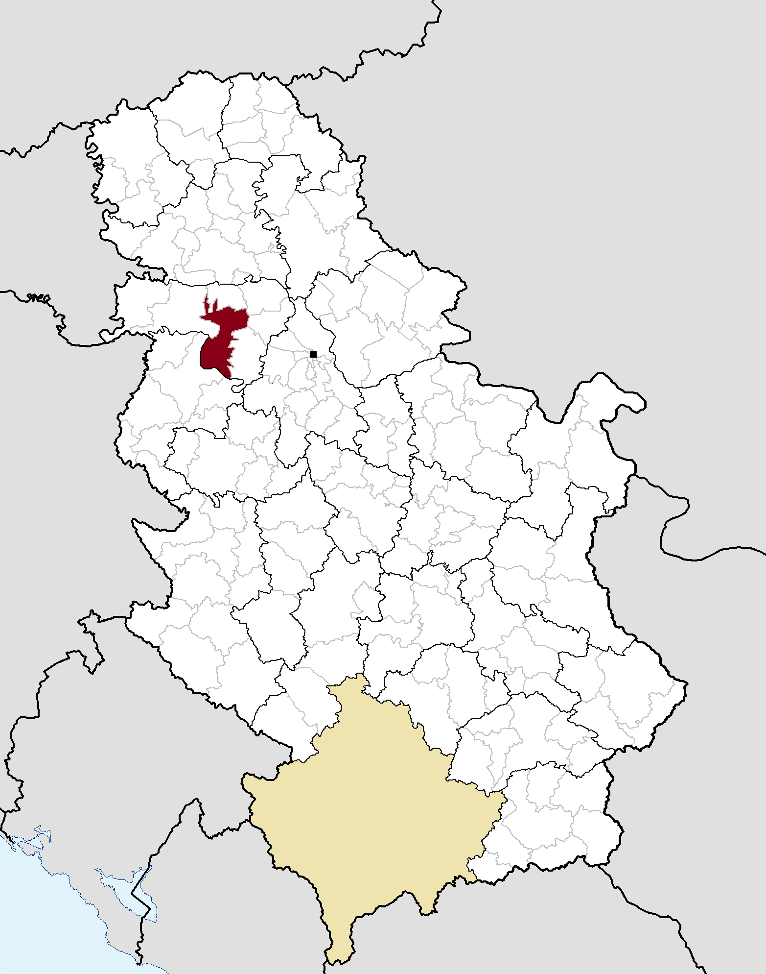 Municipal location in Serbia